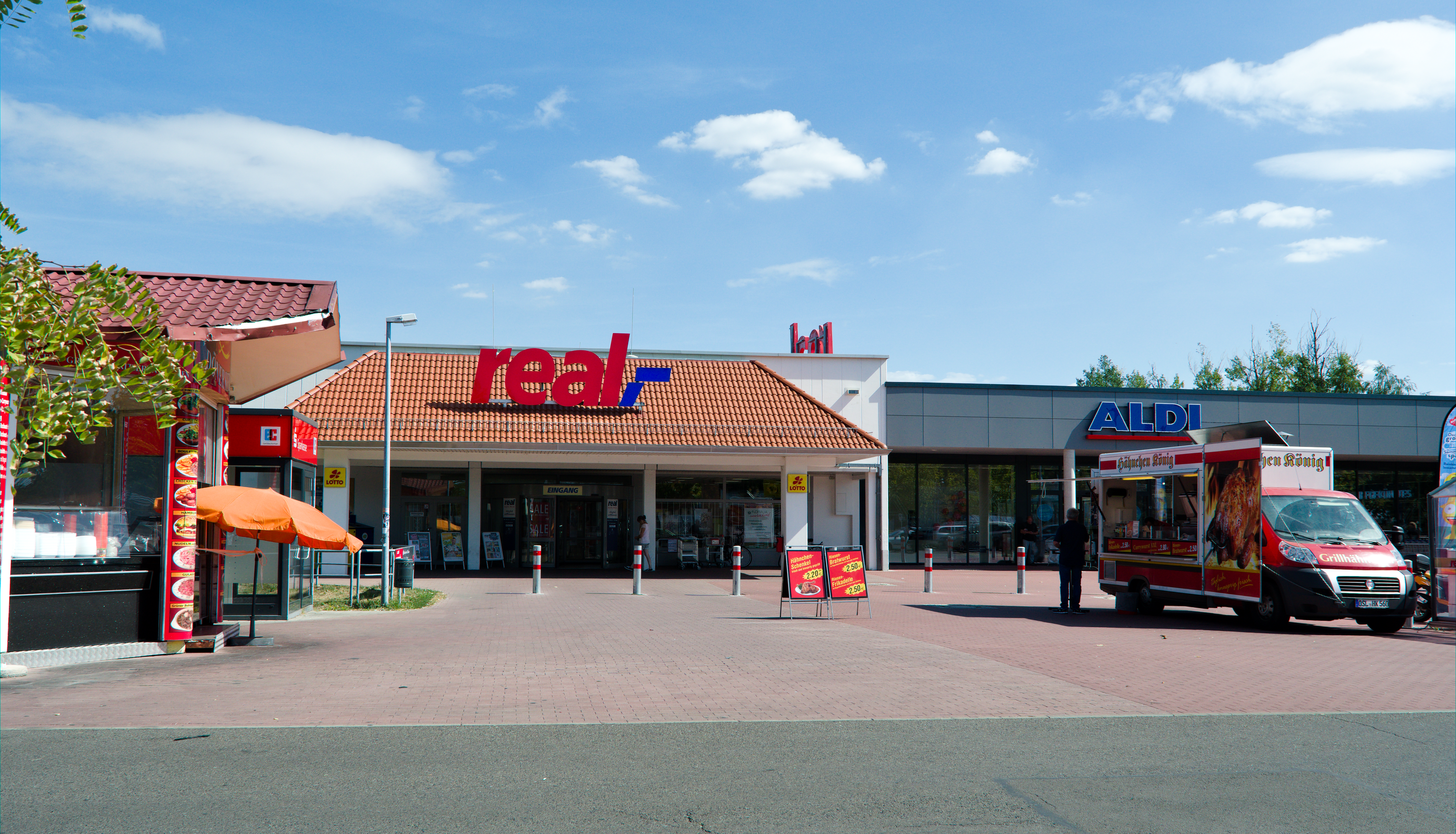 Commercial district Langosa in Kolkwitz. Pictured here is the main building housing real and ALDI supermarkets, and several other tenants.